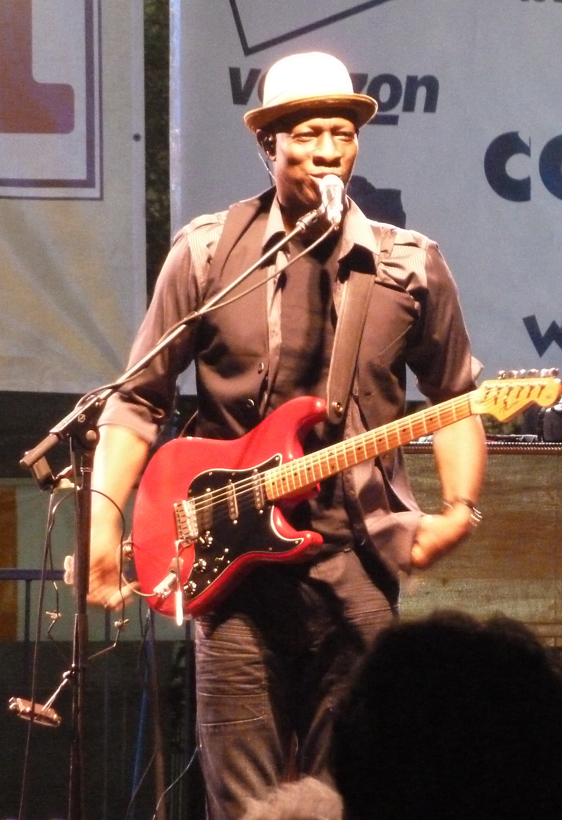 Keb' Mo' performs at the Crescent City Barbecue and Blues Festival, New Orleans, Louisiana, October 13, 2012.